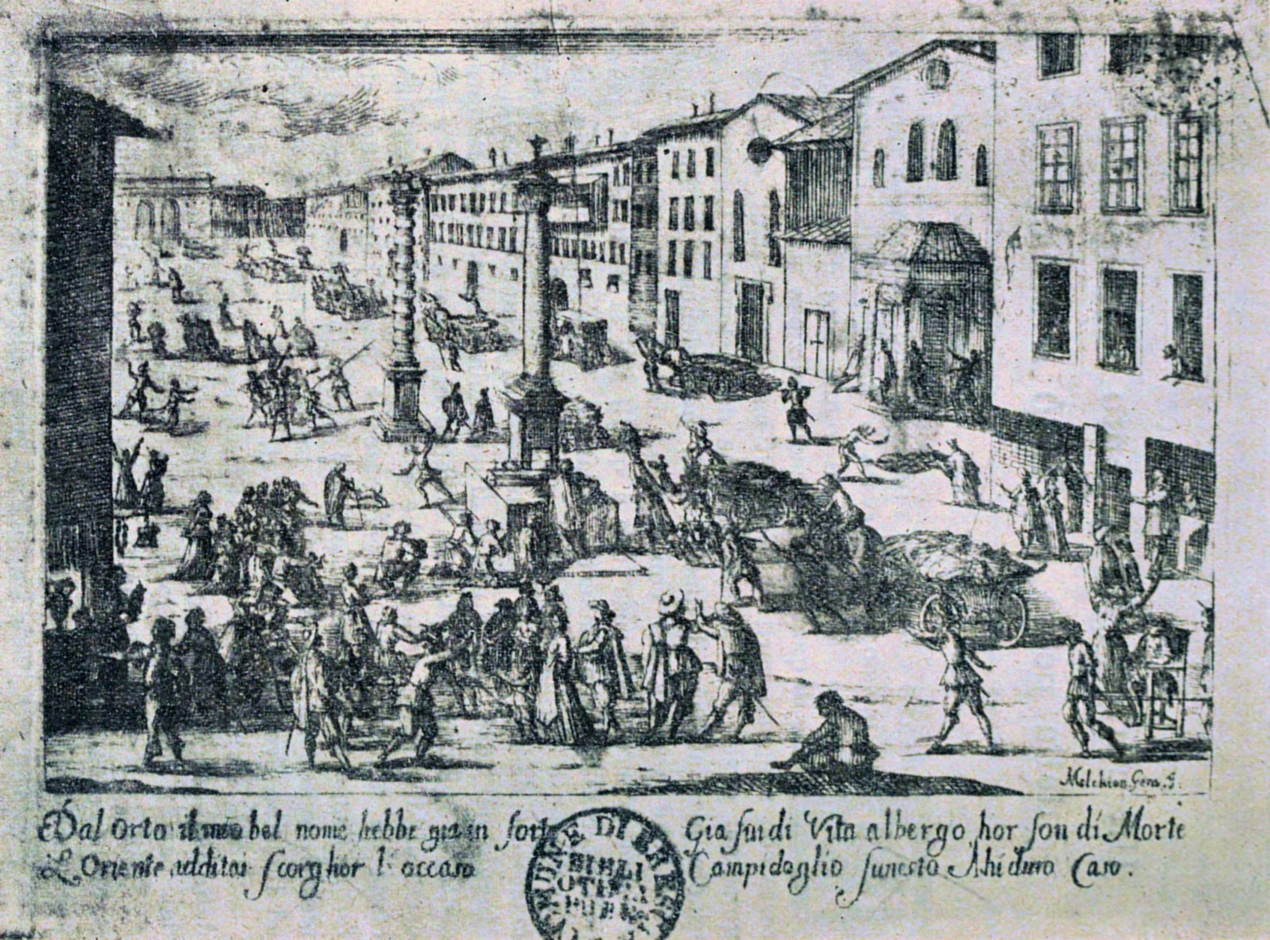 Etching. View of Piazza San Babila, Milan during the plague of 1630. The Porta Orientale is in the background. In the centre of the piazza stand the column of S. Mona (1585) and the column of the lion (1628); at the foot of the former a priest celebrates mass. Eight plague carts laden with corpses head towards the Porta Orientale – presumably to the cemetery of S. Gregorio which stood by the lazaretto beyond the city gate. Another corpse lies on the ground by the church of S. Babila. This is from a series of fourteen etchings which were accompanied by a dedication to an un-named prince-cardinal, probably Teodoro Trivulzio. They are in the Pinacoteca Tosio Martinengo di Brescia. See source for a fuller treatment.